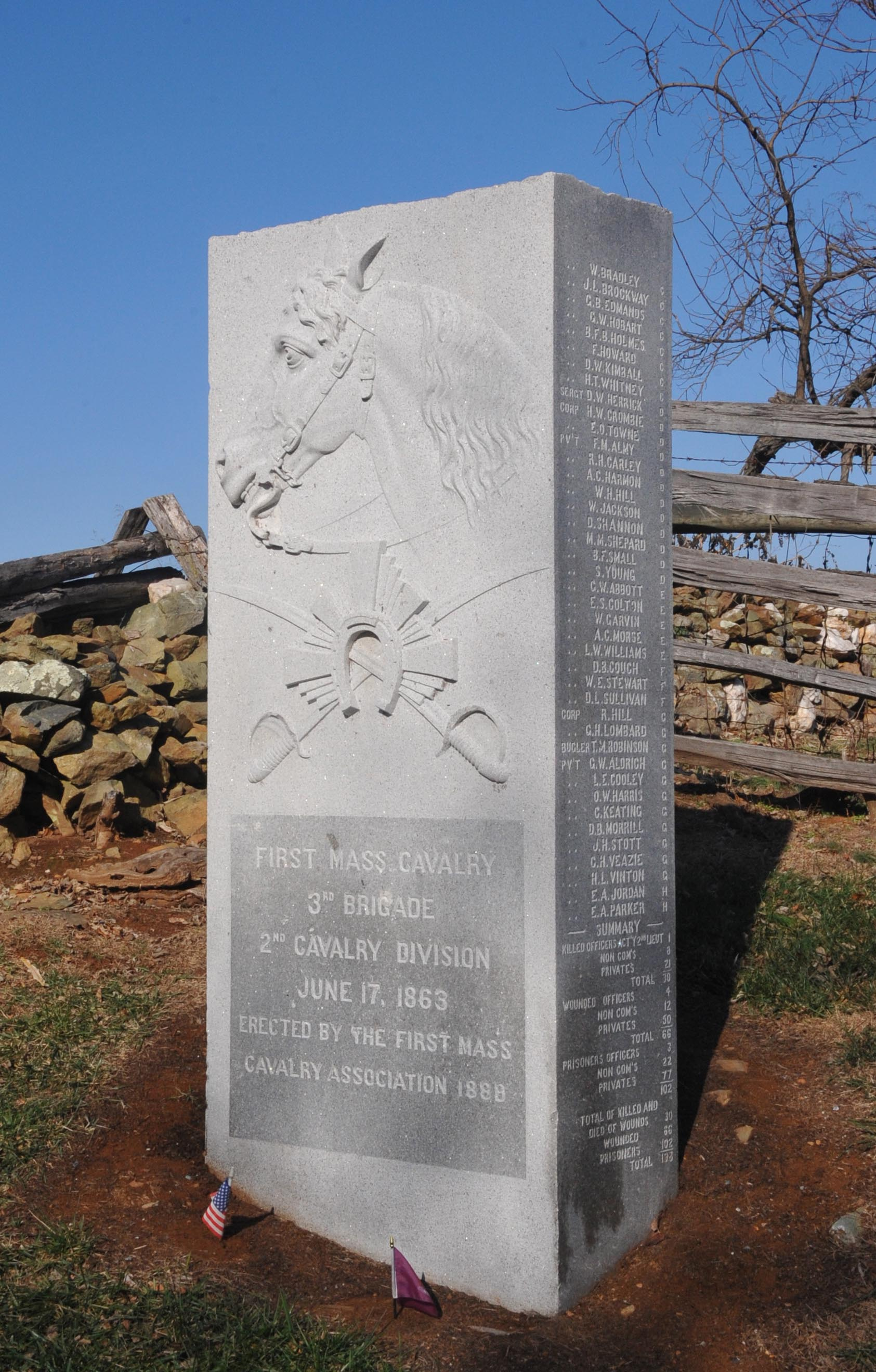 TOOK PLACE ON JUNE 17, 1863; AT THE SITE OF THE STONE WALL ALONG THE BLIND CURVE WHERE THE 1ST MASSACHUSETTS WAS DECIMATED, A MONUMENT ERECTED BY THE SURVIVORS STANDS TO HONOR THE SERVICE DURING THE BATTLE. CALVARY UNDER BRIG GENERAL JUDSON KILPATRICK ENCOUNTERED TROOPS UNDER COLONEL THOMAS MUMFORD. THE BATTLE LASTED FOR 4 HOURS BEFORE MUMFORD’S TROOPS WERE FORCED TO WITHDRAW RESULTING IN A UNION VICTORY.